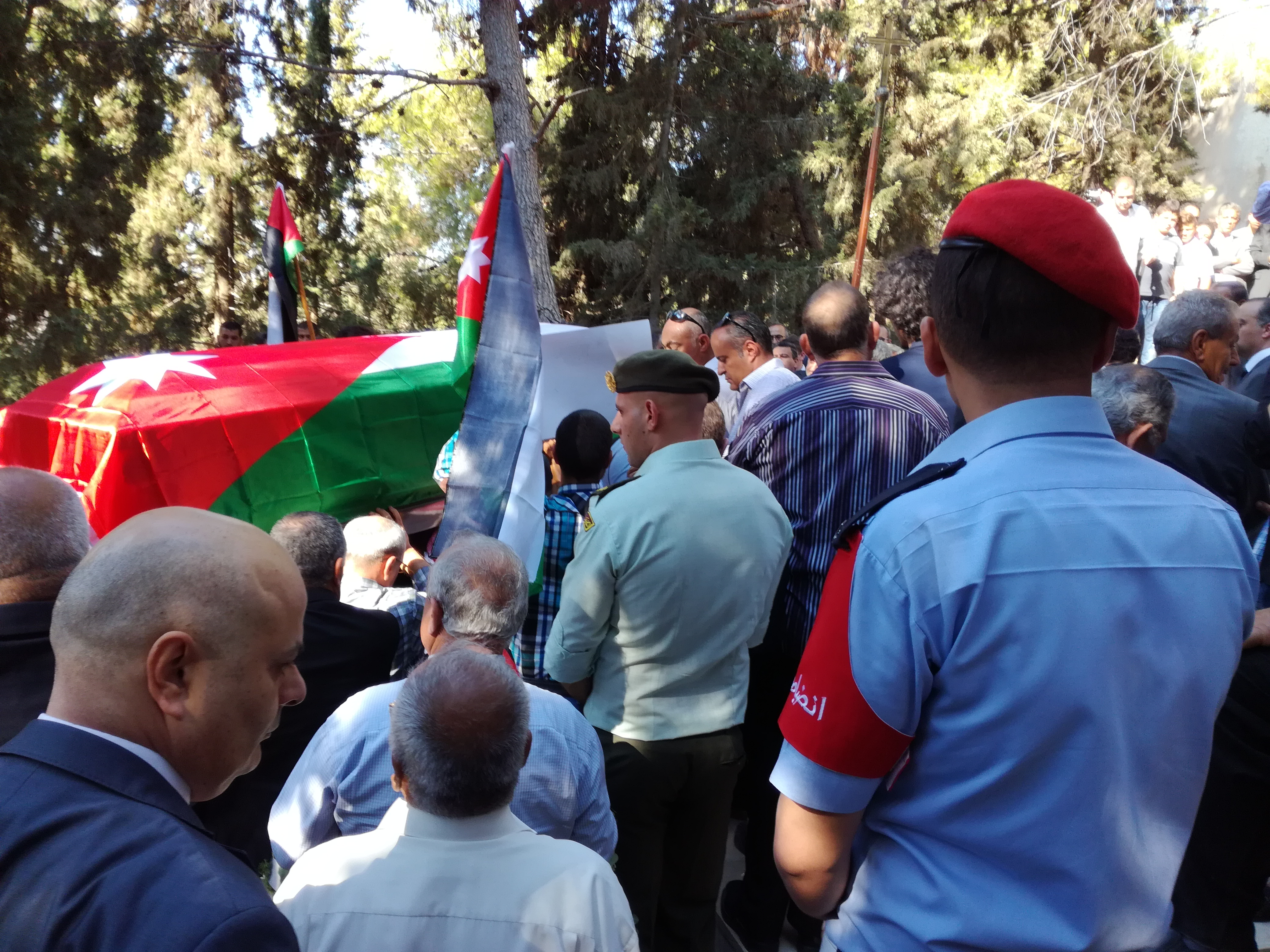 خلال تشييع جثمان ناهض حتر في مقبرة الفحيص